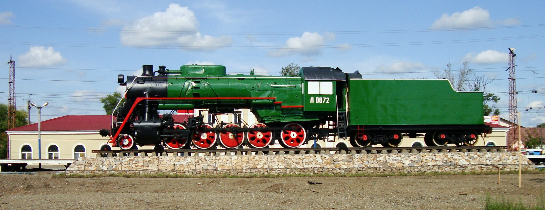 Petushki station, steam locomotive L 0872